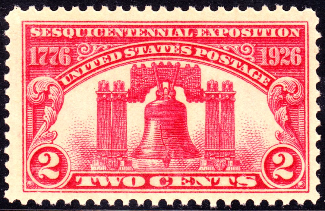 Liberty_Bell_150th_Anniversary_1926_Issue-2c.jpg